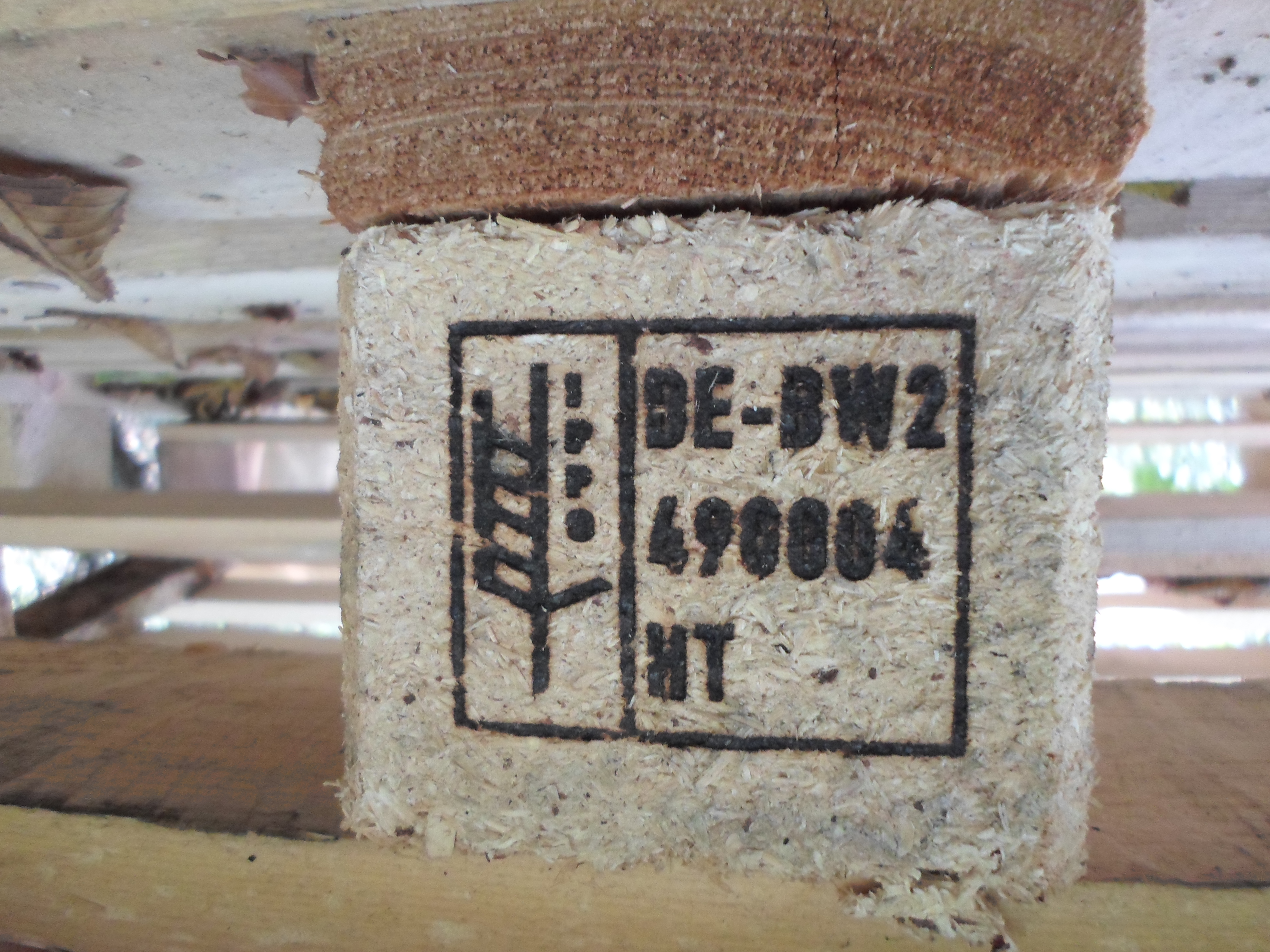 Wooden pallet - TAG ID - Alain Van den Hende - licence CC40